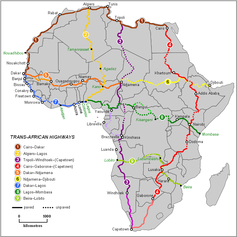 Map of Trans-African Highways based on data 2000 to 2003